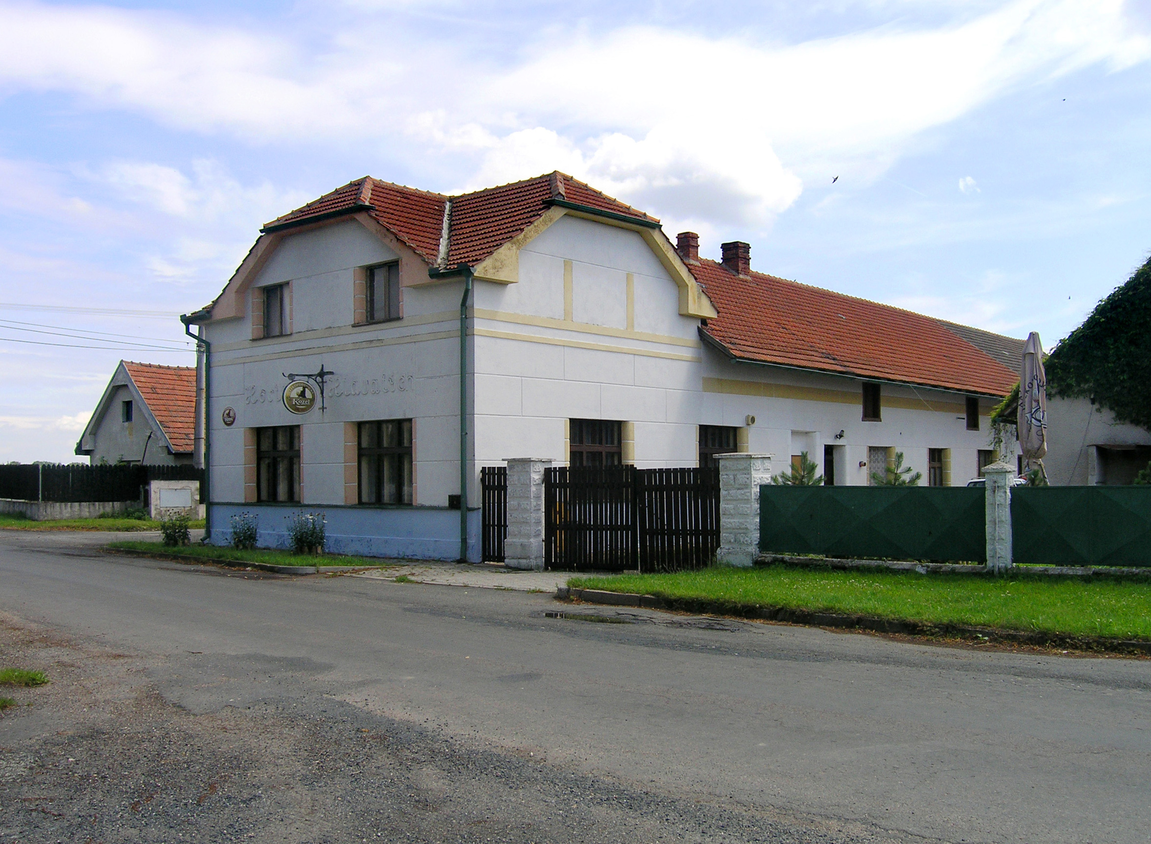 Pub in Rozehnaly village, part of Radovesnice II, Czech Republic